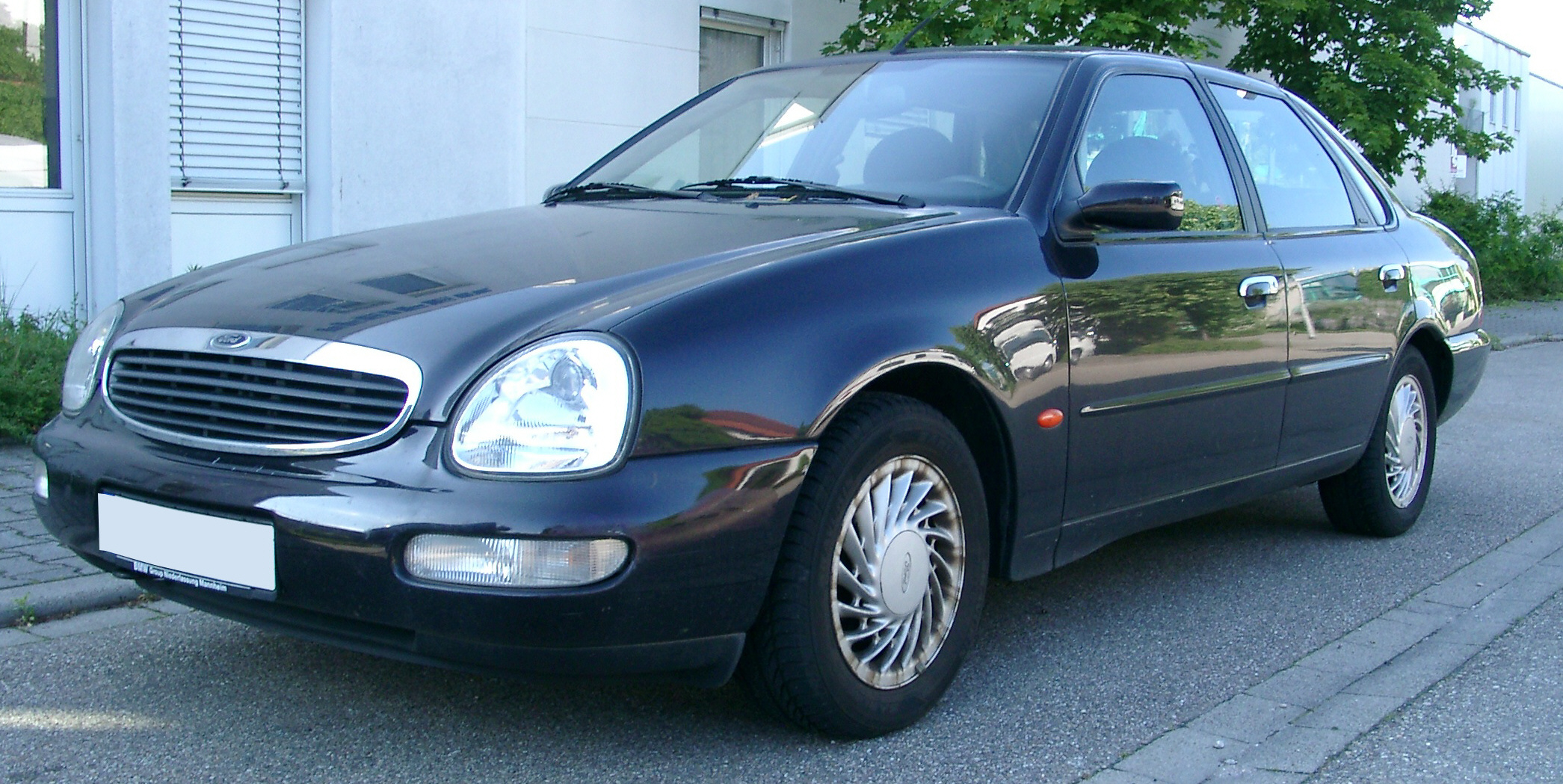 Ford Scorpio 2. Generation